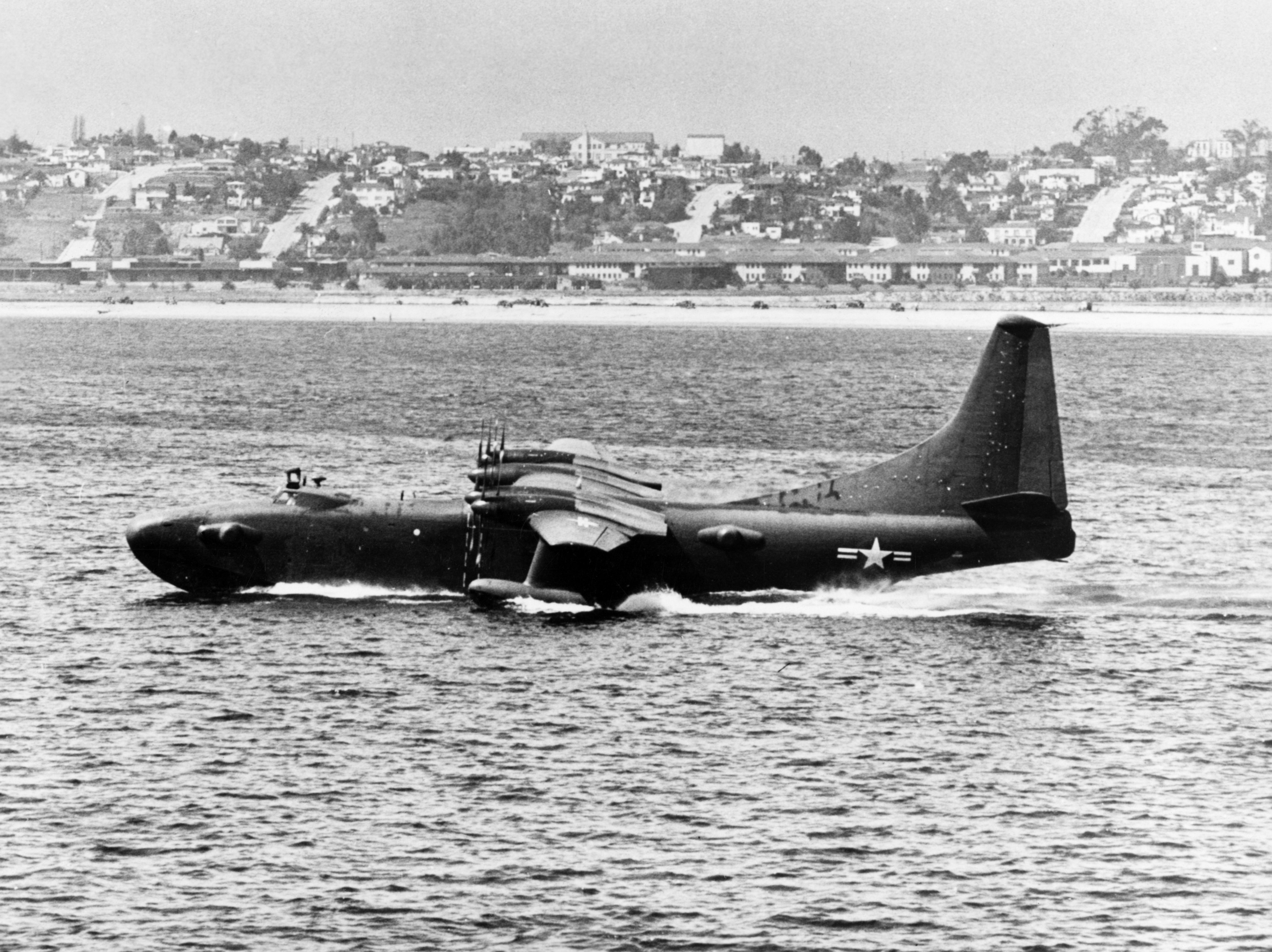 The Convair XP5Y-1 Tradewind on the day of its first flight on 18 April 1950 at San Diego, California (USA).